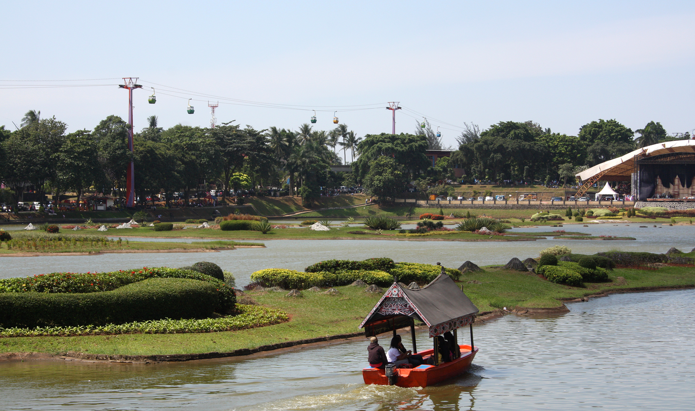 Boat ride at Indonesian archipelago lake, Taman Mini Indonesia Indah, Jakarta.